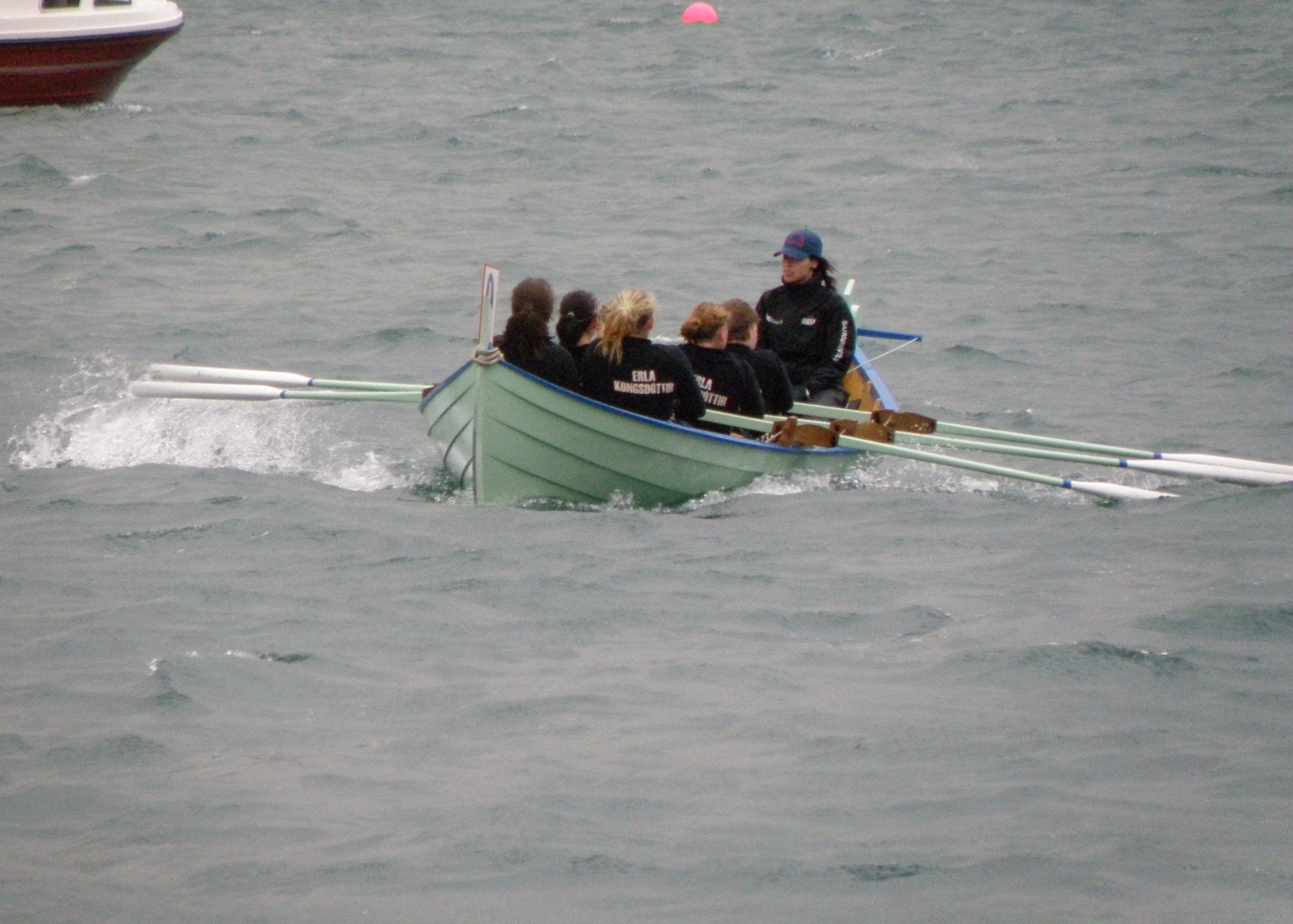 Erla Kongsdóttir is a Faroese wooden row boat, a 5-mannafar. In 2010 the girls of Erla Kongsdóttir won the Faroese Championship for the category "5-mannafør women". This photo was taken in Tvøroyri on 25 June 2011 at the Joansoka Festival. Erla Kongsdottir belongs to the club "ÍF Kappróður" from Fuglafjørður in Eysturoy, Faroe Islands. Føroyskt: Erla Kongsdóttir er føroyskur kappróðrarbátur, eitt 5-mannafar. Í 2010 vunnu kvinnurnar á Erlu Kongsdóttir FM heitið. Henda myndin varð tikin á Jóansøku á Tvøroyri 25. juni 2011.